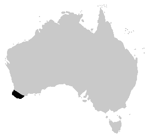 The distribution of Metacrinia nichollsi. User:Froggydarb/custom.